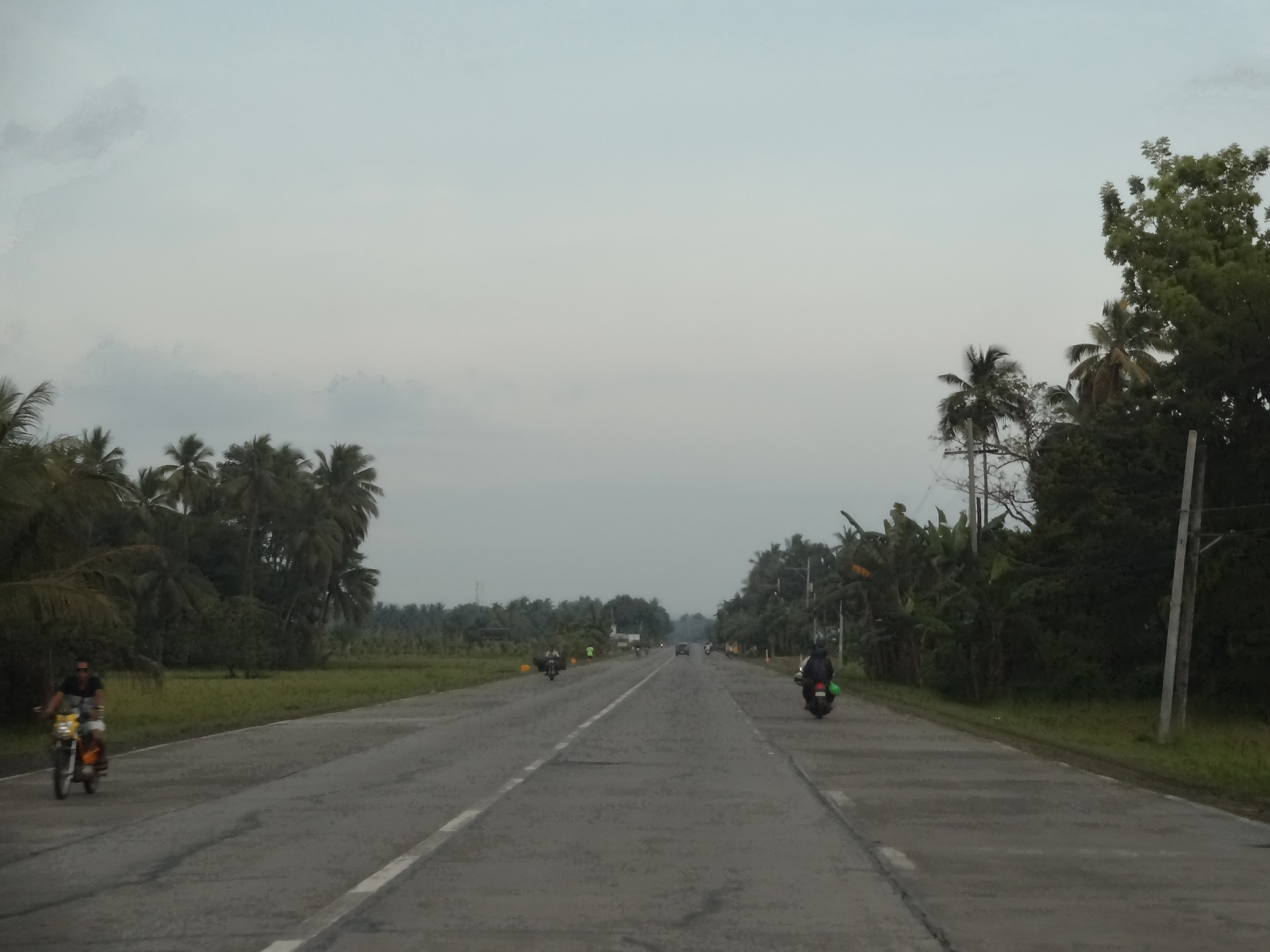 This is my own work. The National Highway from Butuan to Cagayan de Oro to Iligan in Buenavista, Agusan del Norte